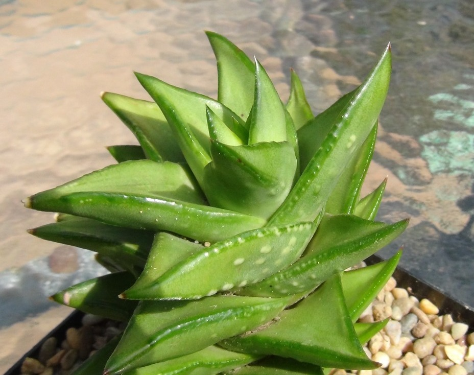 Astroloba tenax var moltenoi. Young plant seen in cultivation.